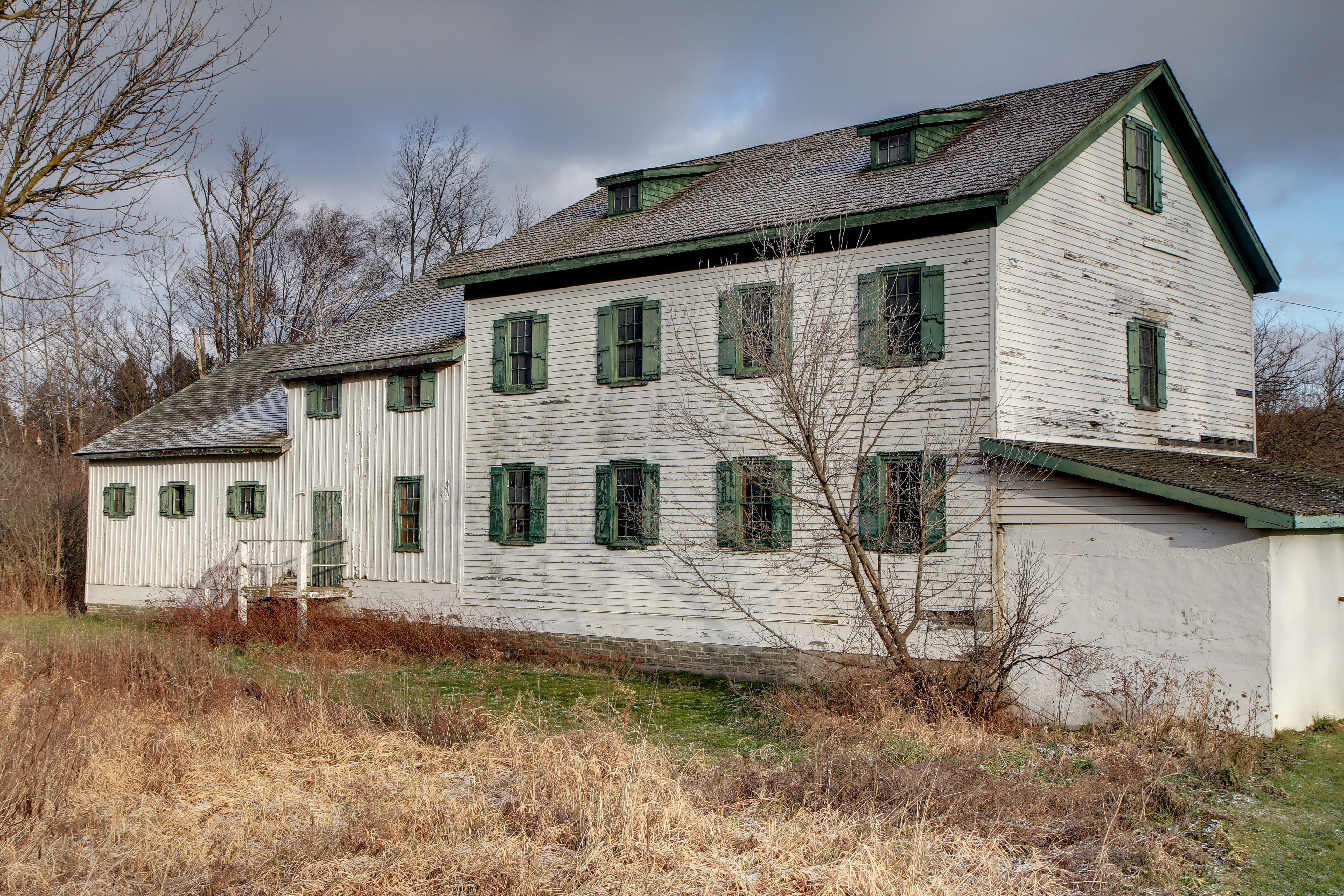 The original mill along a tributary of the Rouge River was built in 1829. This structure replaced the original around 1858. Say so on the sign.